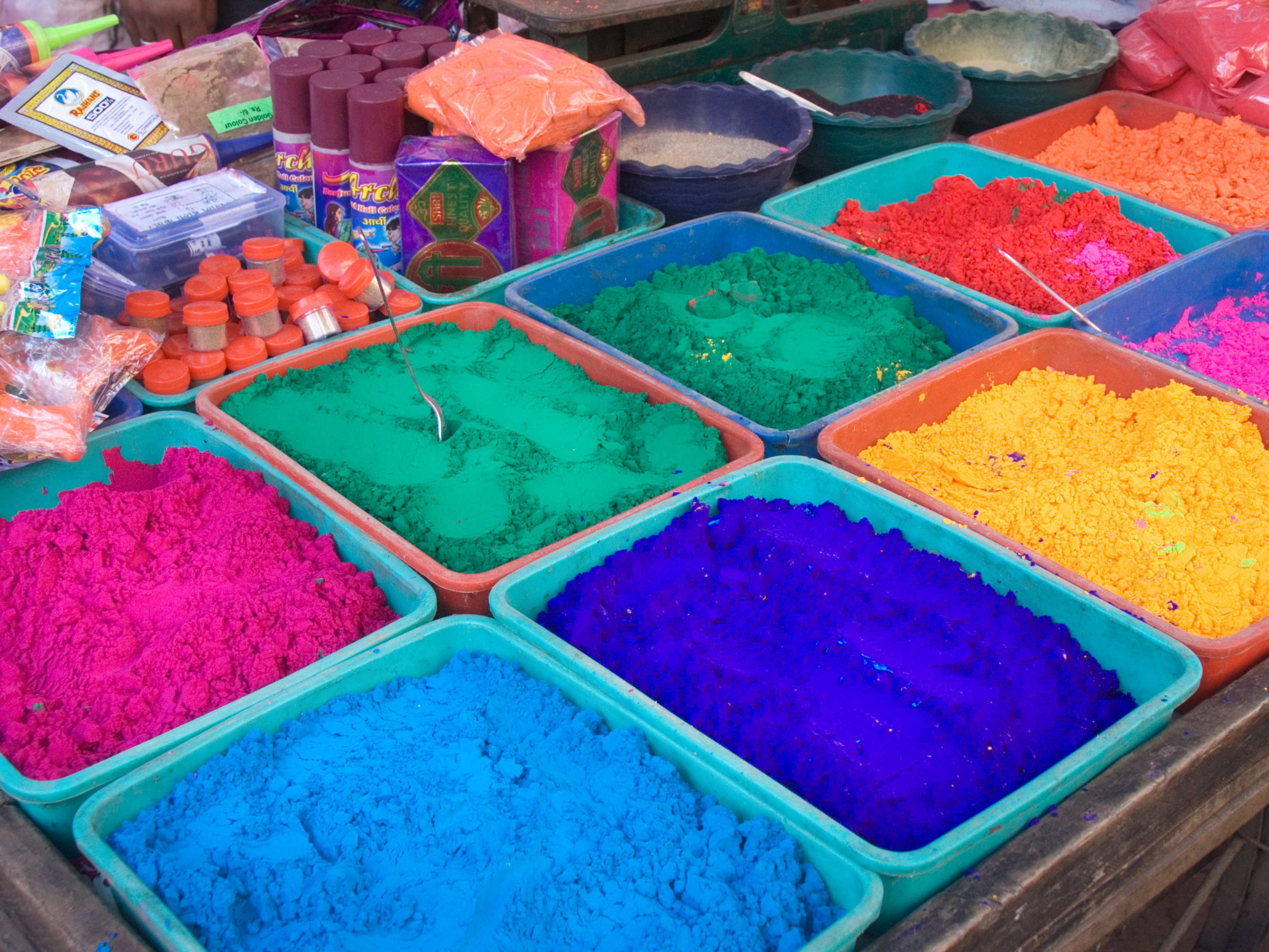 Color Powder stalls ready for the Holi celebration. India